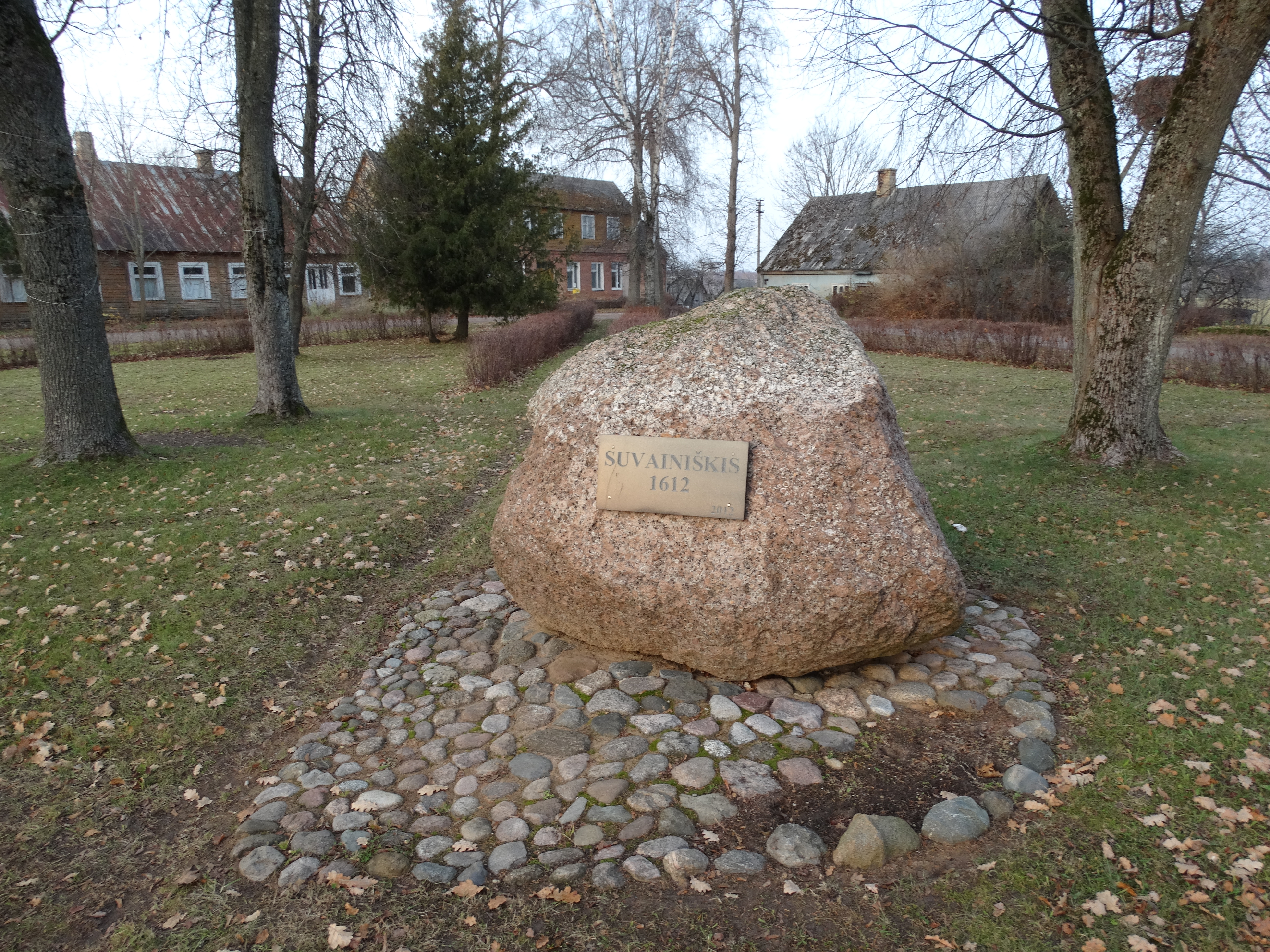 Suvainiškis, Rokiškis district, Lithuania